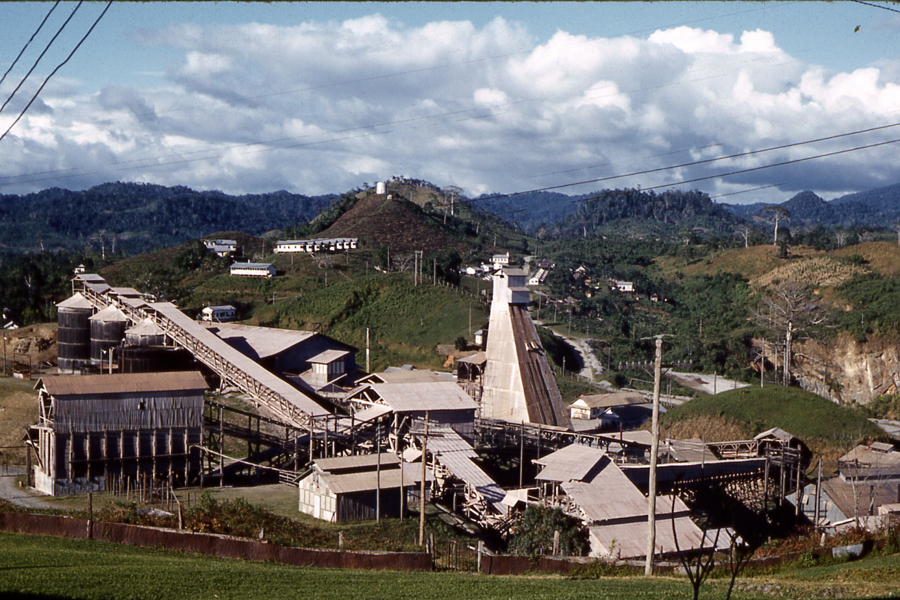 Looking down from La Zona pool on La Luz Gold Mine complex in Siuna, Nicaragua. The town of Siuna was the site of La Luz Mining company, which was active from 1936 to 1968. There was migration from other areas of the country to work in the gold mine during these years, including people from the coast and indigenous groups. The mine was shut down in 1968 due to damage of the Ei River hydroelectric plant.[1]